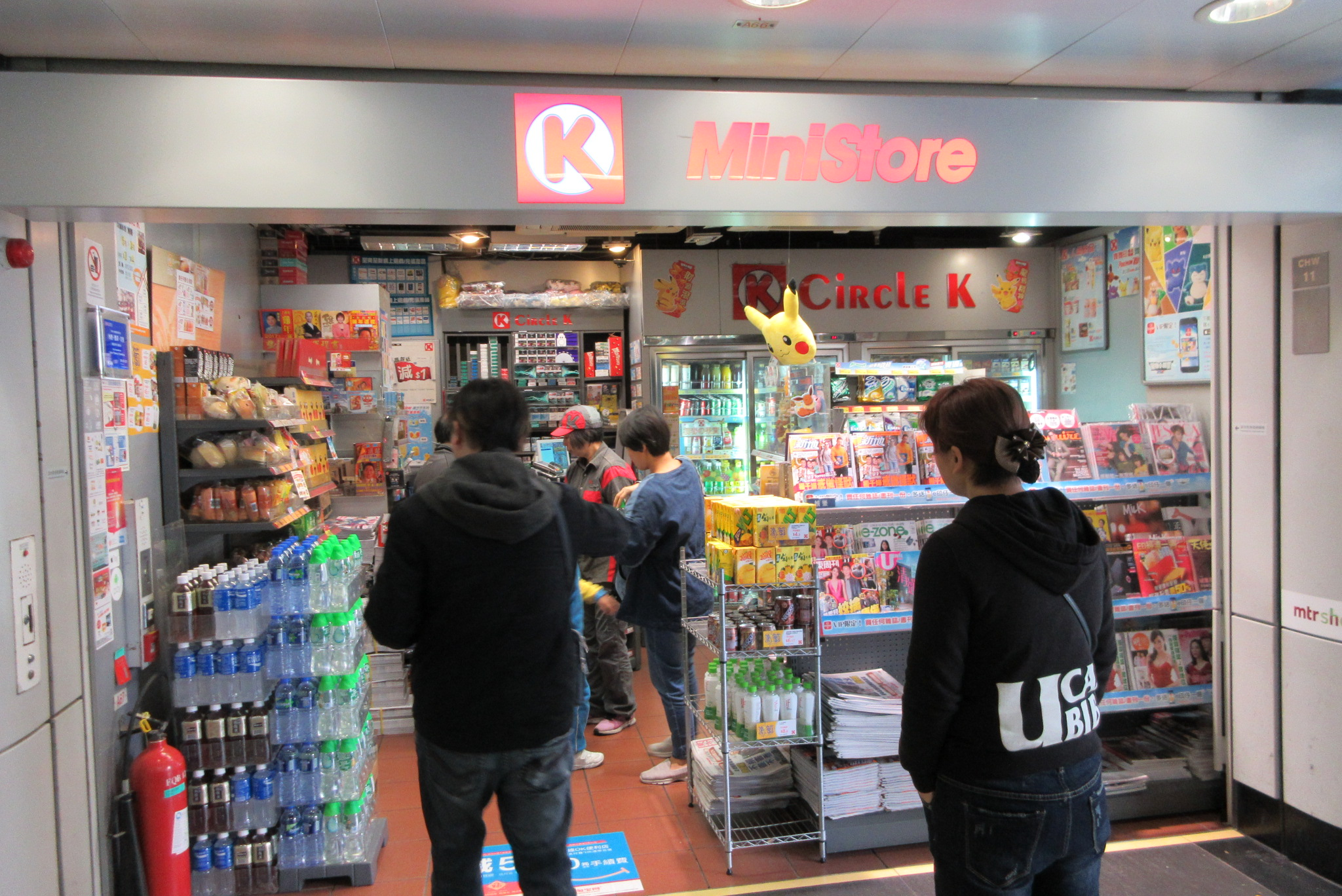 Circle K ministore at MTR Chai Wan station